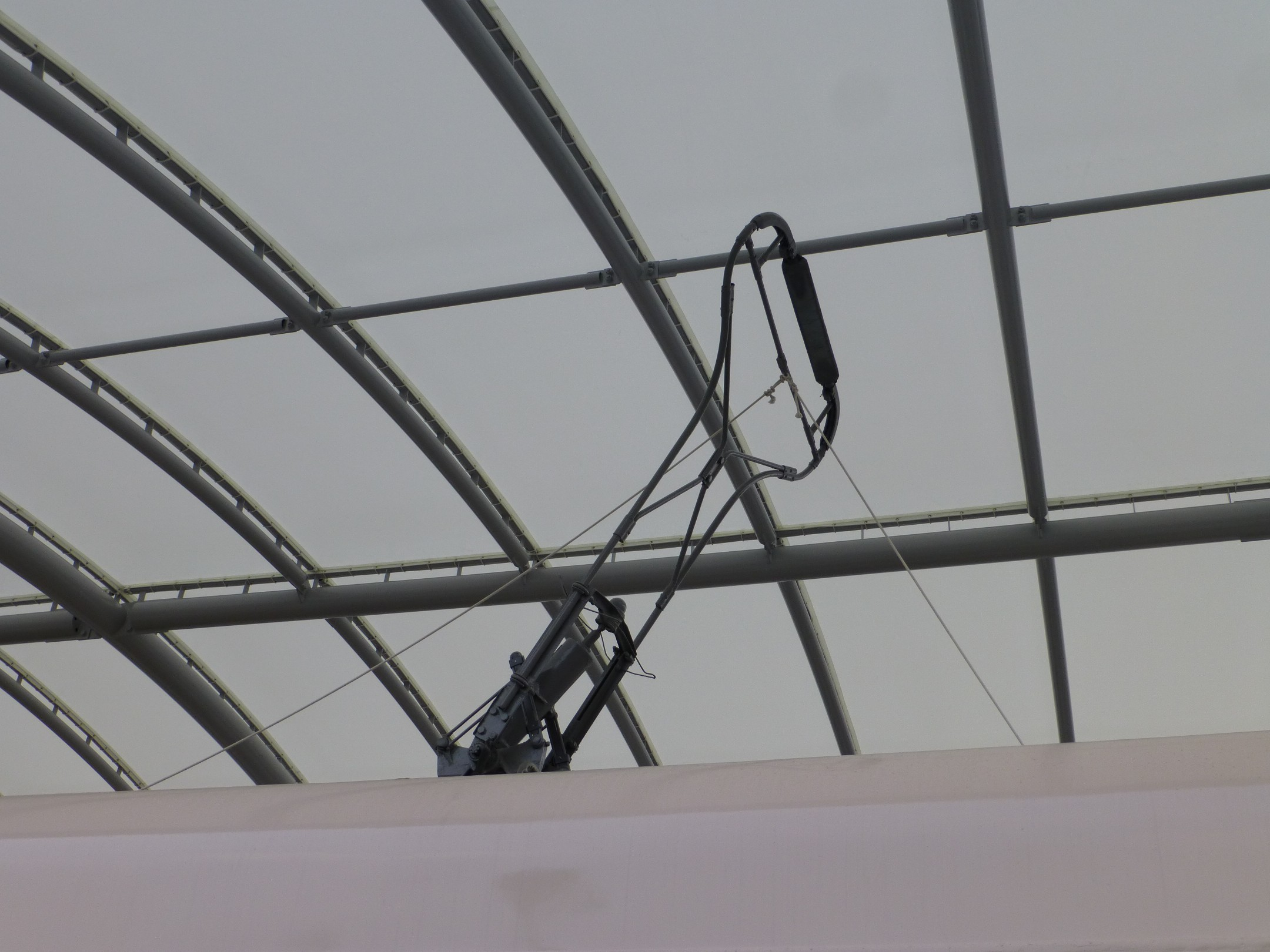 Bow collector for Kyoto Municipal Tramway 890 (type 800), preserved at Tramway Square in Umekoji Park.